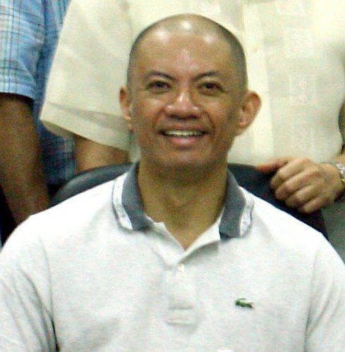 Coach Yeng Guiao